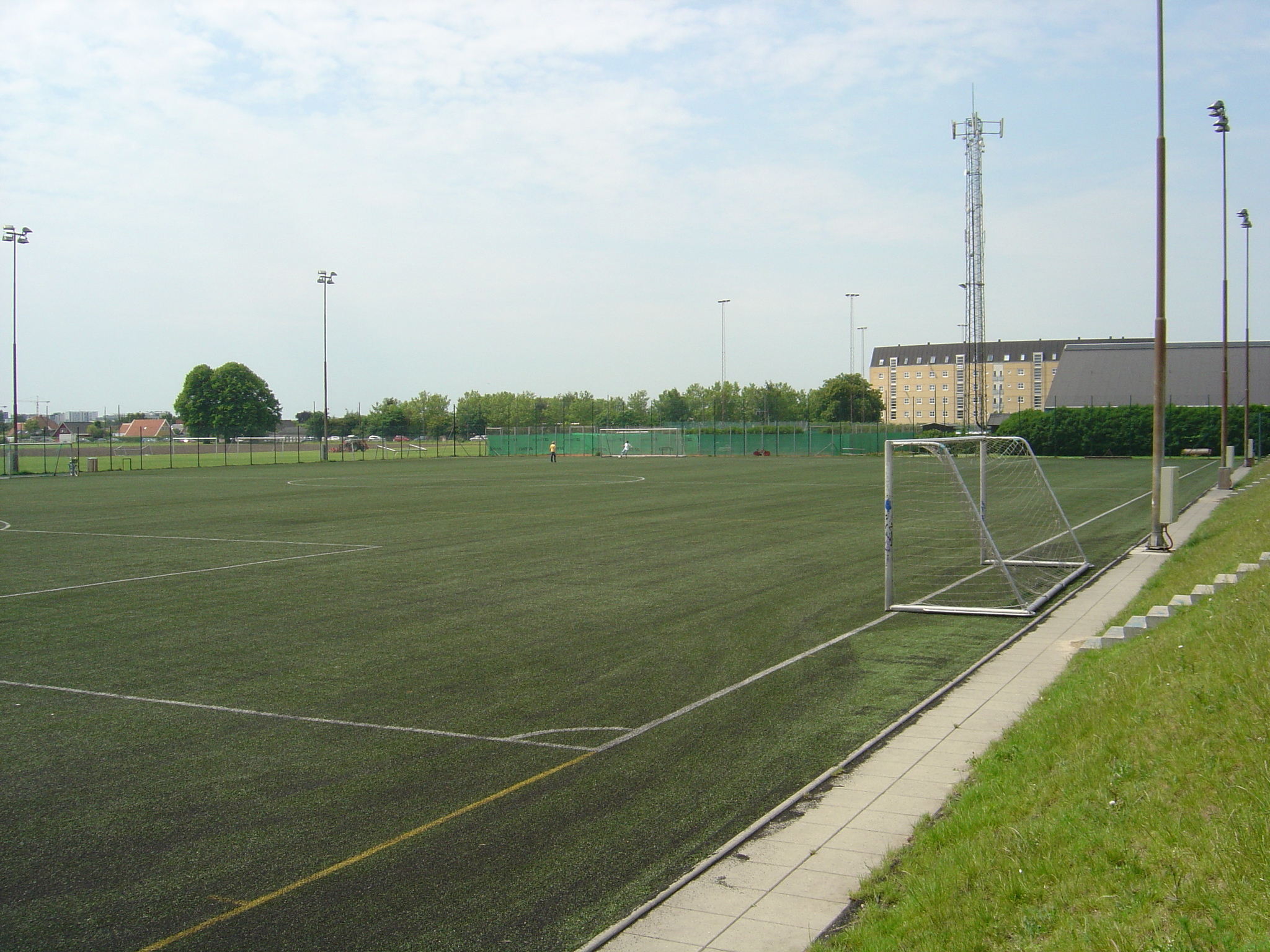 Sundby Idrætspark, 3rd generation artificial turf field with lights on Amager, Copenhagen. Seen from northeast side of the pitch.